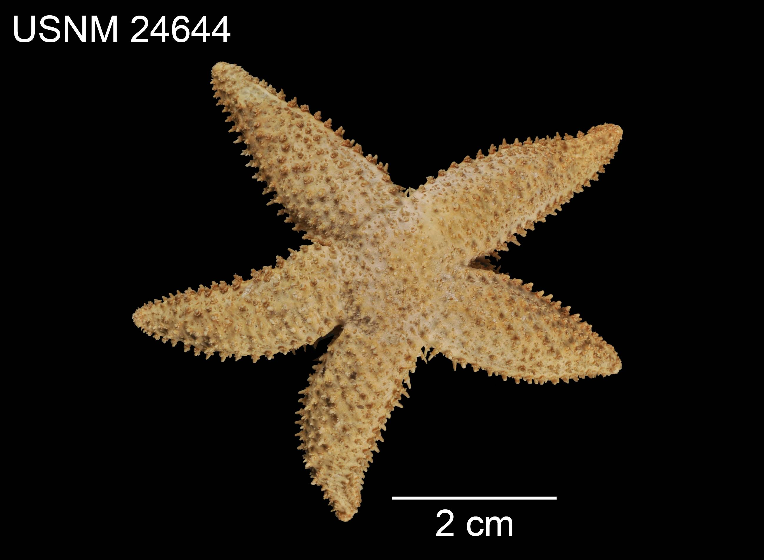 PRESERVED_SPECIMEN; Preparations: Dry; Asterias austera Verrill, 1895; Individual count: 1; Type status: SYNTYPE; Identified by: Verrill, Addison E., Peabody Museum, Yale; Event date: (no data); Additional description: dorsal